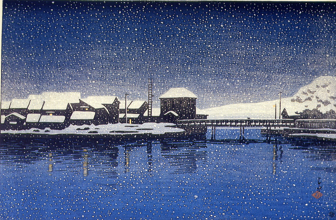 Kawase Hasui: Port of Ebisu on Sado Island (Sado Ebisu minato), from the series Souvenirs of Travel II (Tabi miyage dai nishû) 旅みやげ第二集 佐渡夷港. Vertical ôban; 26.5 x 39.1 cm (10 7/16 x 15 3/8 in.)